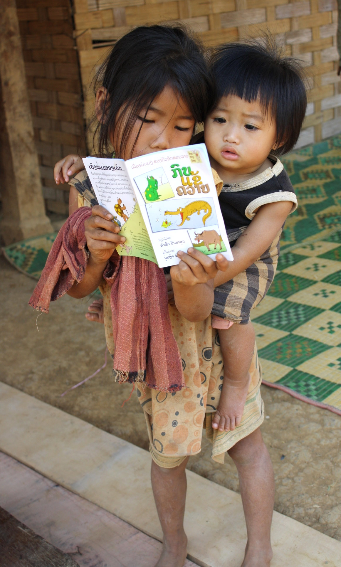 In rural Laos, young children often have responsibility to care for siblings who are even younger. Here, two girls share an alphabet book that they received from Big Brother Mouse, which provides rural children with their first books.